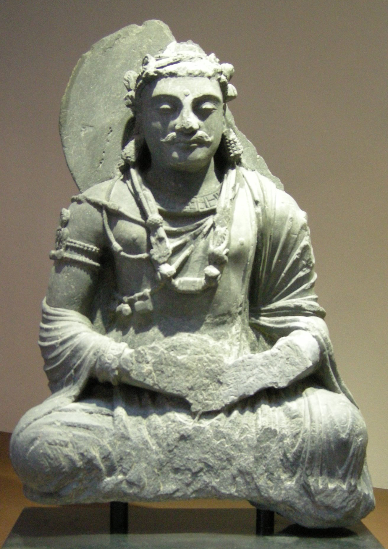 Gandhara, bodhisattva assiso, II sec.